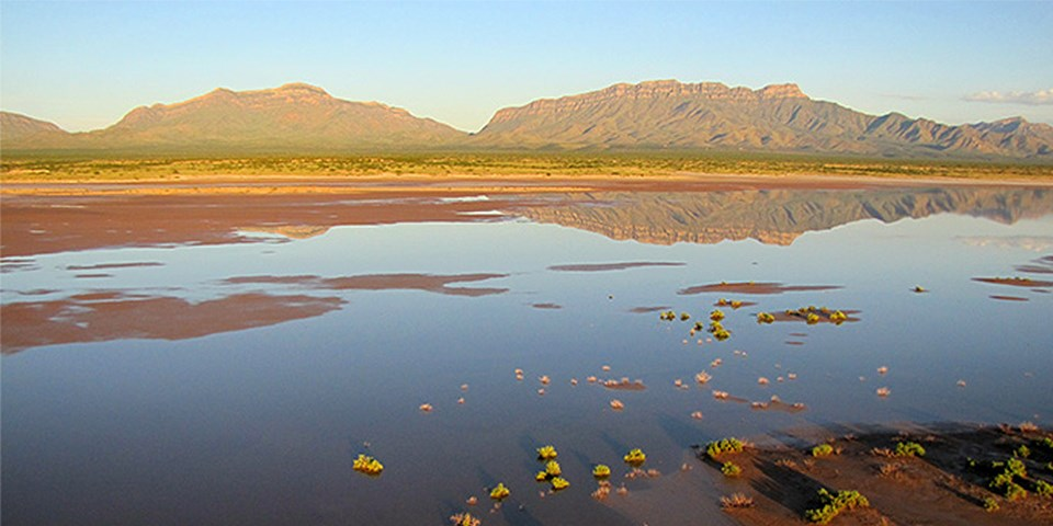 Photograph of Lake Lucero in White Sands National Monument, New Mexico, US